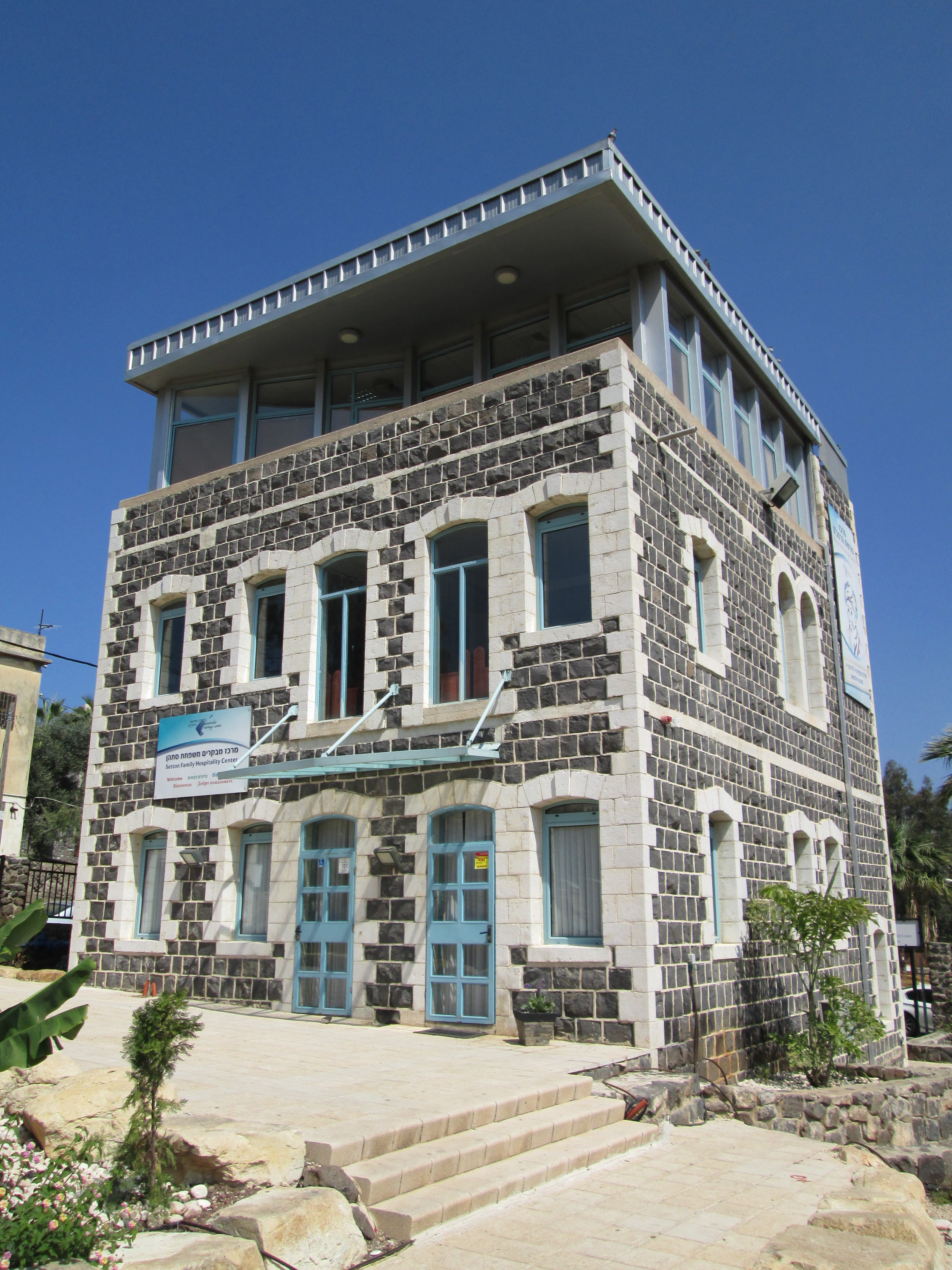 The outside of the Maimonides Heritage Center in Tiberias, taken in March 2014.